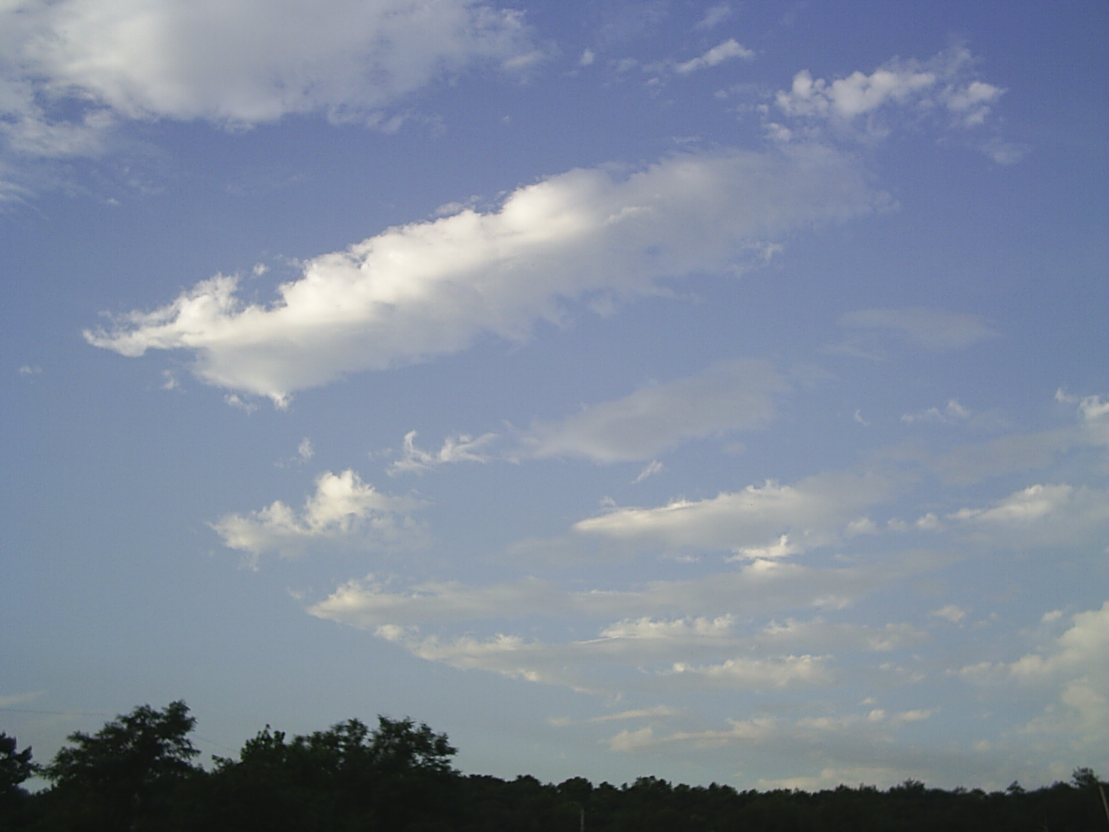 Clouds in Hongseong, South Korea